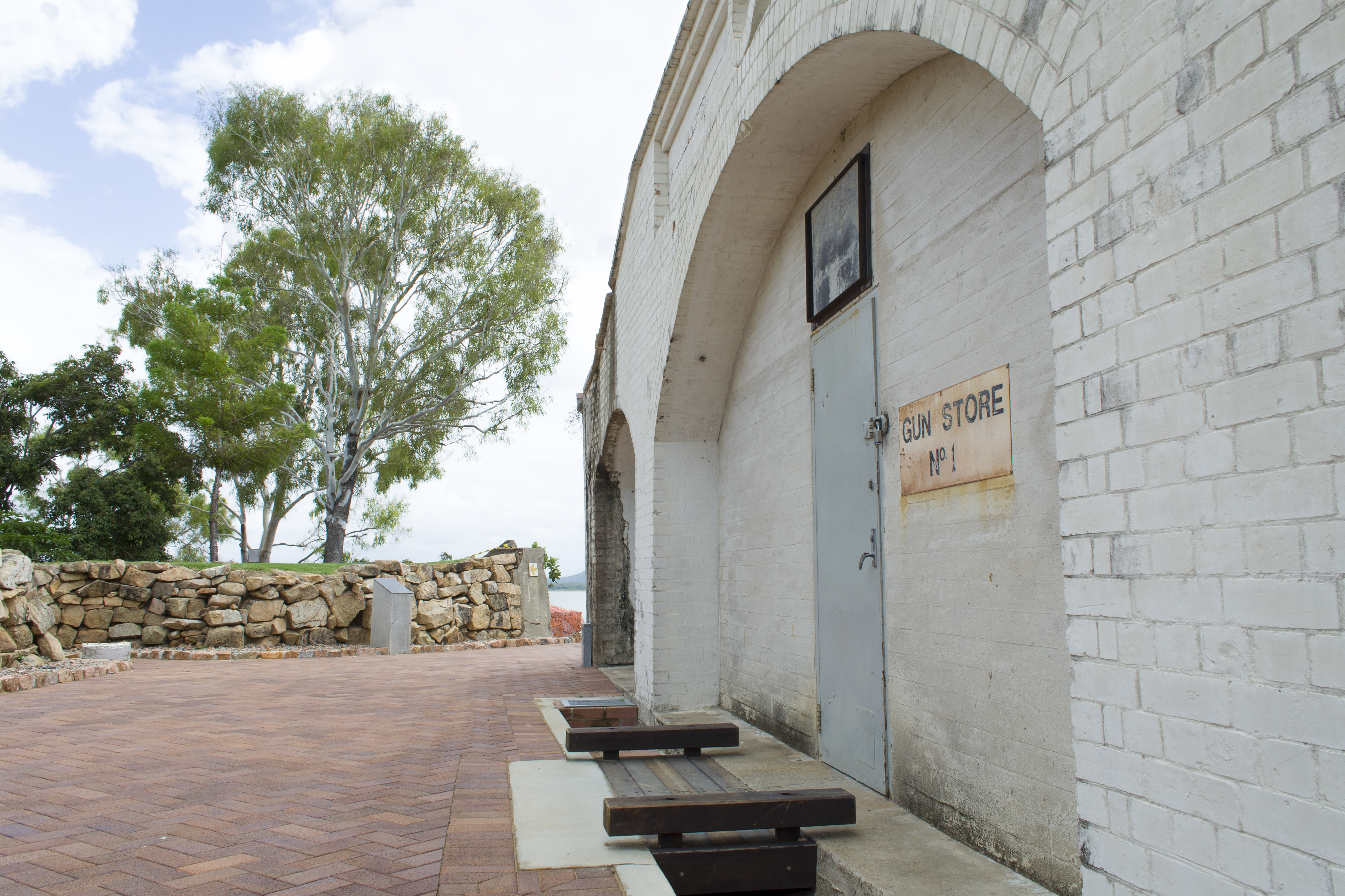 Part of the old fortifications at Townsville's Kissing Point. Heritage listed, they form part of the Jezzine Barracks historical precinct and parklands opened to the public in April 2014.